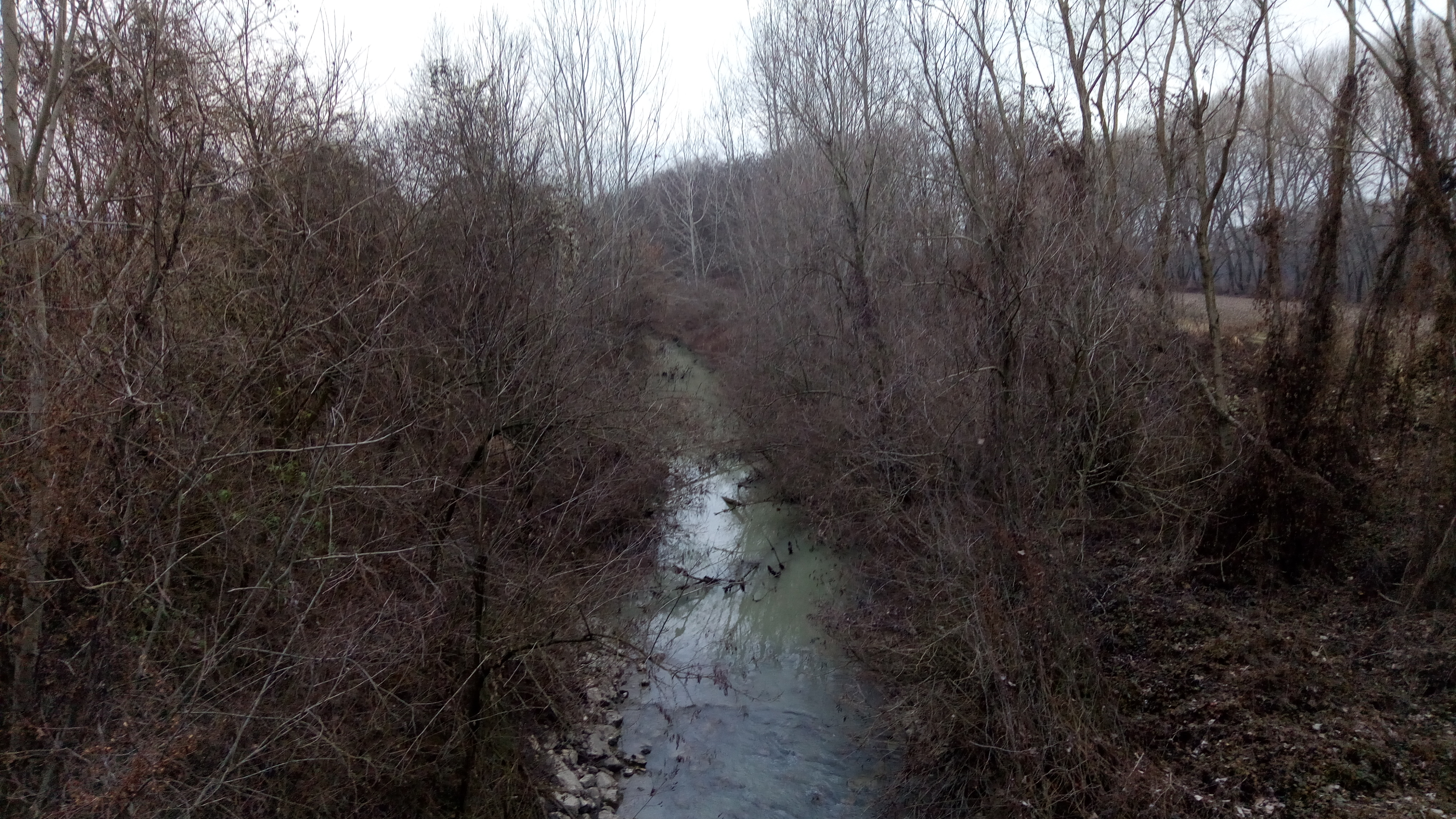 Arda creek